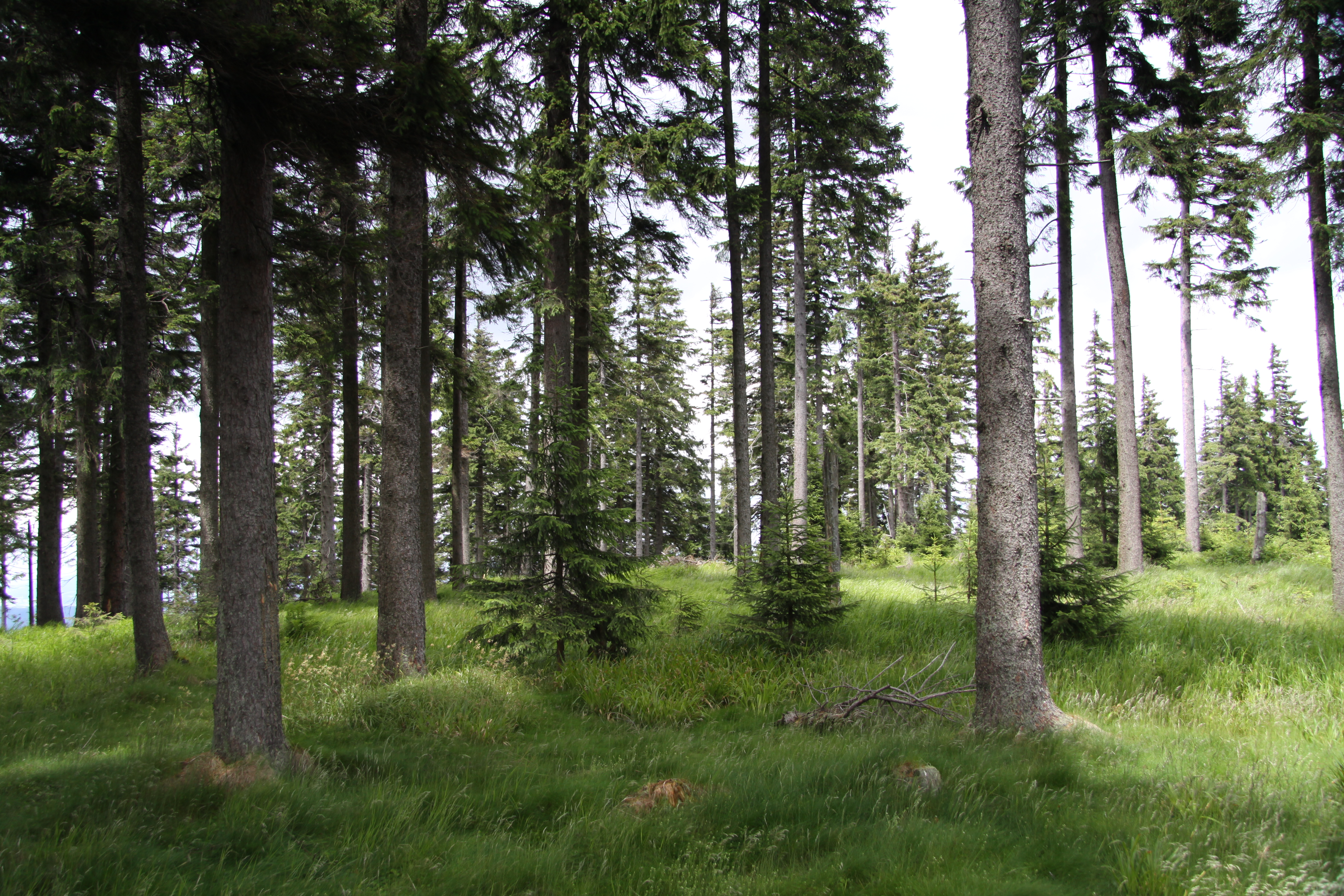 National nature reserve Boubínský prales, Prachatice District, Czech Republic